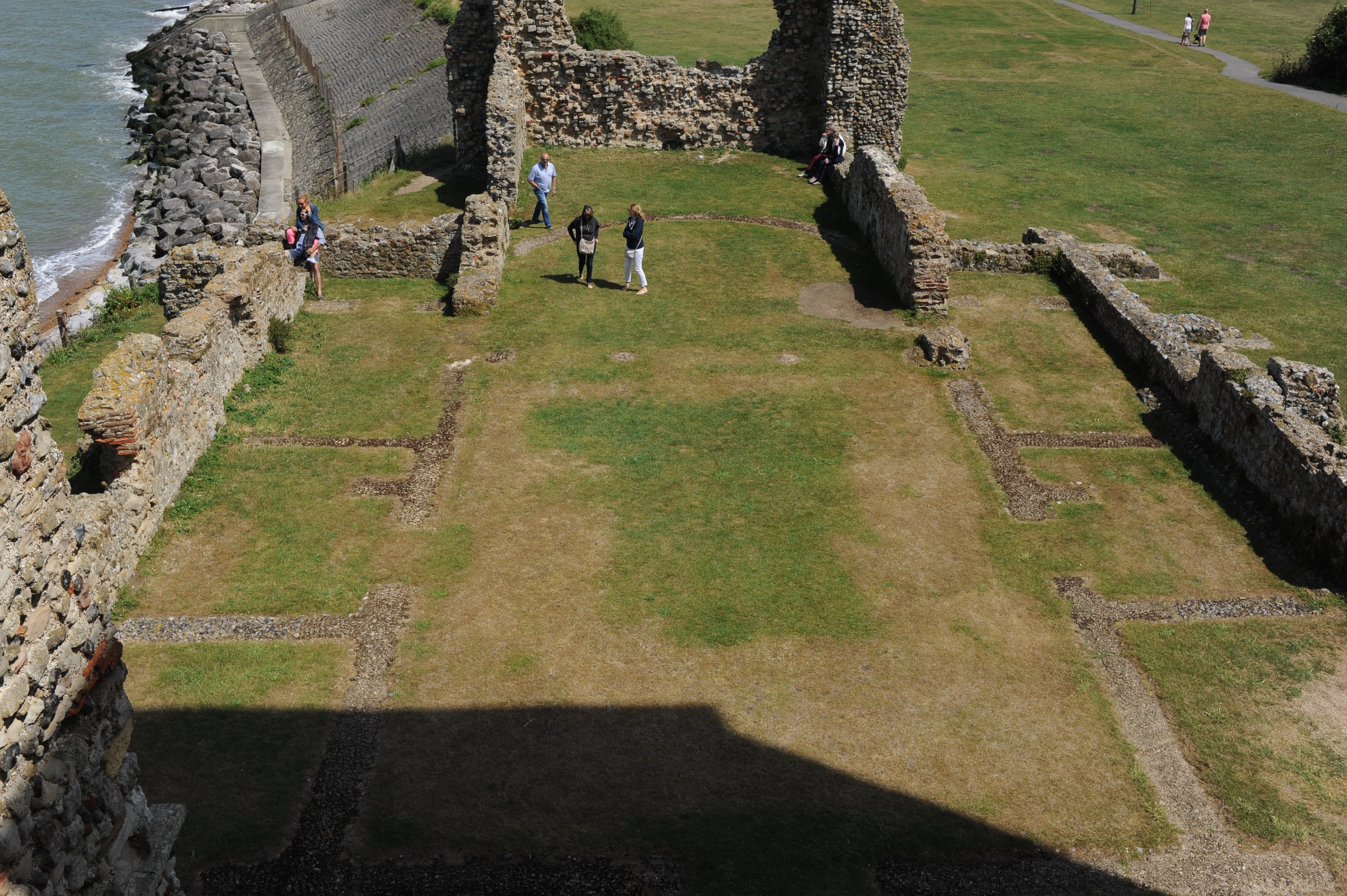 Interior of the ruined church of St Mary, Reculver, looking eastwards from the elevated gallery between the surviving towers. The main feature is the outline of the original church of 699, excavated by archaeologists in the 1920s and marked mostly by concrete strips in the grass. The curved strip near the top of the image represents the apse. Below that, two circles of concrete represent the foundations of two columns that formed a triple chancel arch. To the left and right of those, and slightly beyond, are doorways into the north and south porticus, which themselves had external doors on their furthest, eastern sides, visible as gaps in the corresponding strips of concrete. King Eadberht II of Kent was buried in the right-hand, southern porticus in the 760s. From the apse, the north and south walls of the original church extend towards the viewer as far as the doorways to the porticus, but then are almost entirely represented by concrete strips running to the bottom of the image, where they meet the western wall. This runs across the bottom of the image, the grassy gap indicating the western entrance to the church. The parched grass in the central, nave area of the church indicates the presence of the remaining area of the original concrete floor. Between the apse and the furthest, eastern wall of the chancel lies a burial vault created for Sir Cavalliero Maycote, who lived at Brook, Reculver, in the reign of Elizabeth I. The remainder of the standing walls and strips of concrete represent work of the 8th and 13th centuries, apart from the towers and west front, including the gallery from which this photograph was taken, which were added in the 12th. Part of the north tower, which held a ring of four bells until the church was mostly demolished in 1809, is visible on the extreme left of the image.